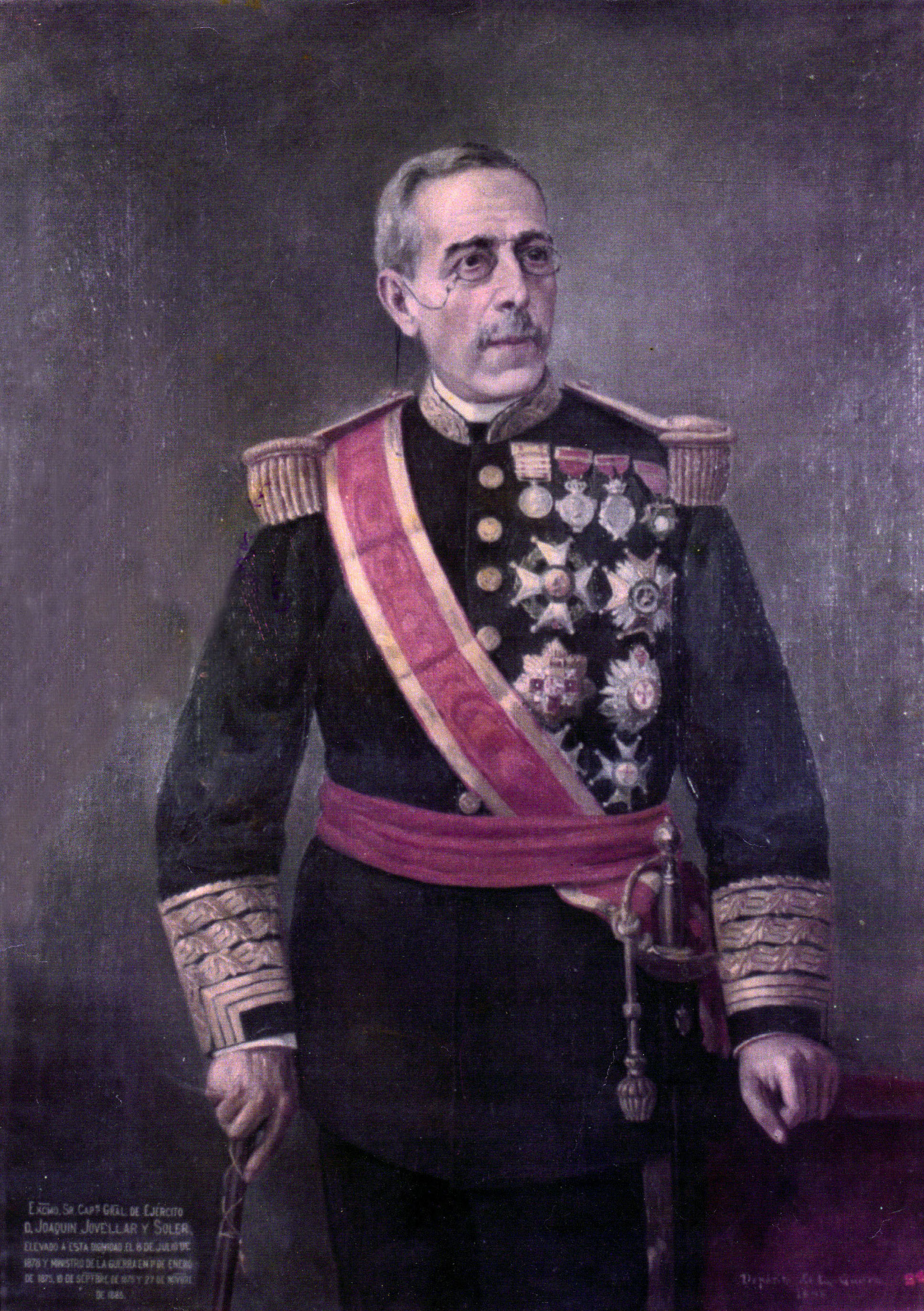 Painting of General Joaquín Jovellar y Soler (28 December 1819 – 17 April 1892) in the Museum of War in Madrid.